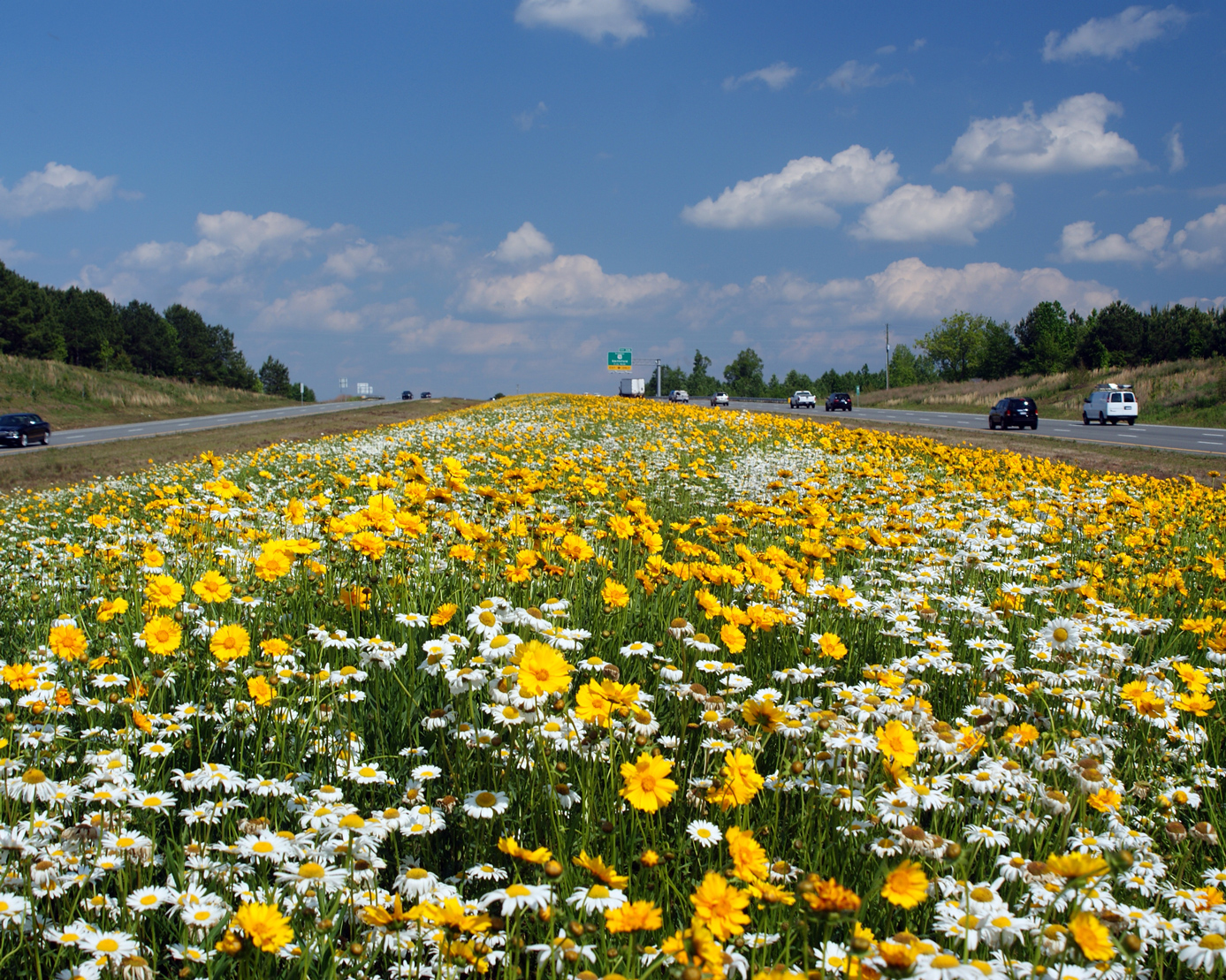 Division 4. Located on U.S. 70 Bypass at Little Creek in Johnston County. Ox-Eyed Daisy, Lance-Leaved Coreopsis.